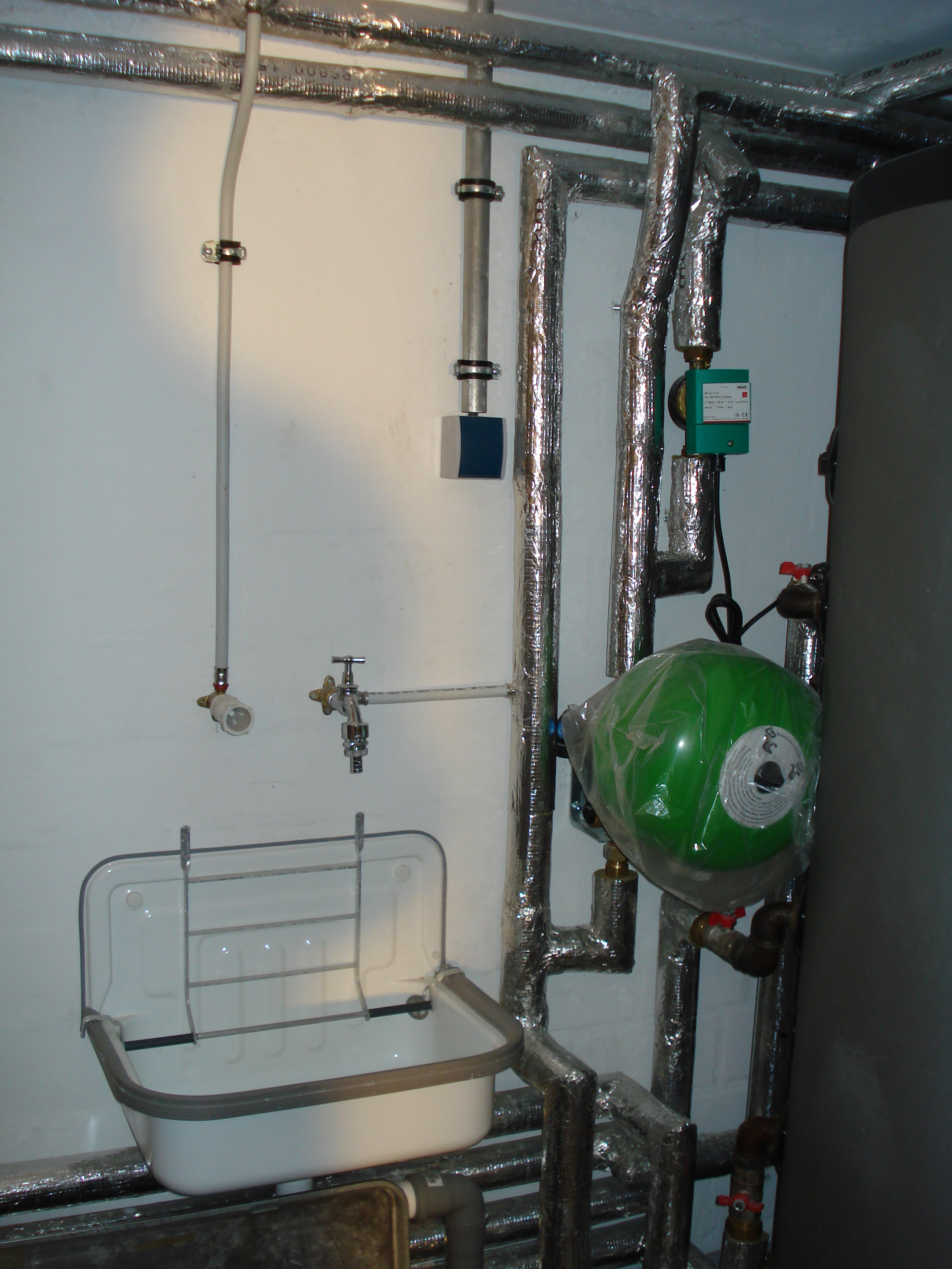 Individual heating control in the basement of the building. There you can see wiring accessories with IP44 cover above sink.